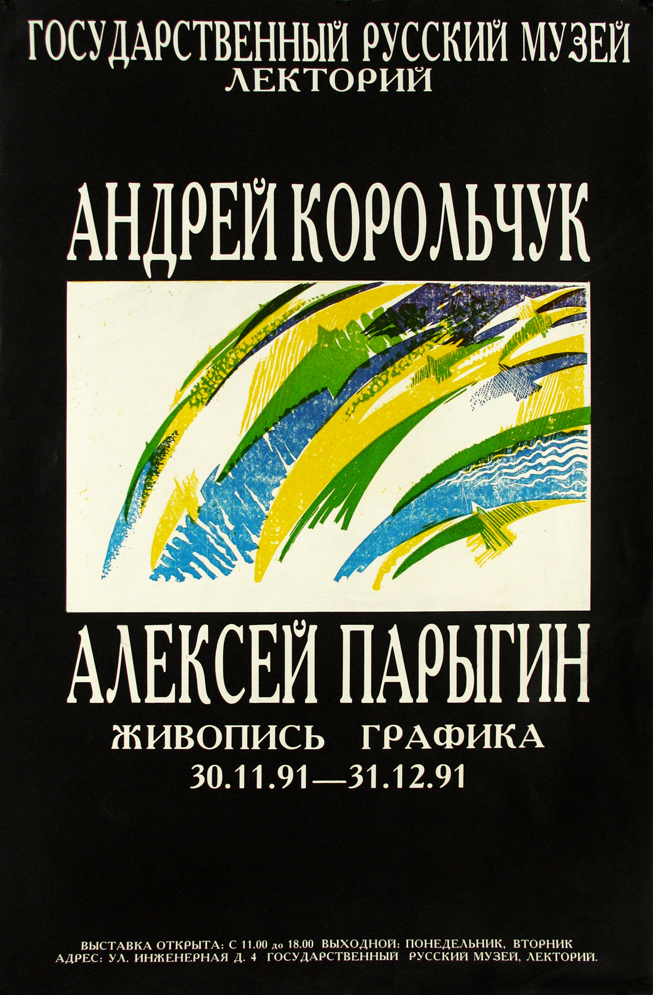 Andrey Korolchuk. Exhibitions Poster. 1991. 80 х 52 cm, linocut.